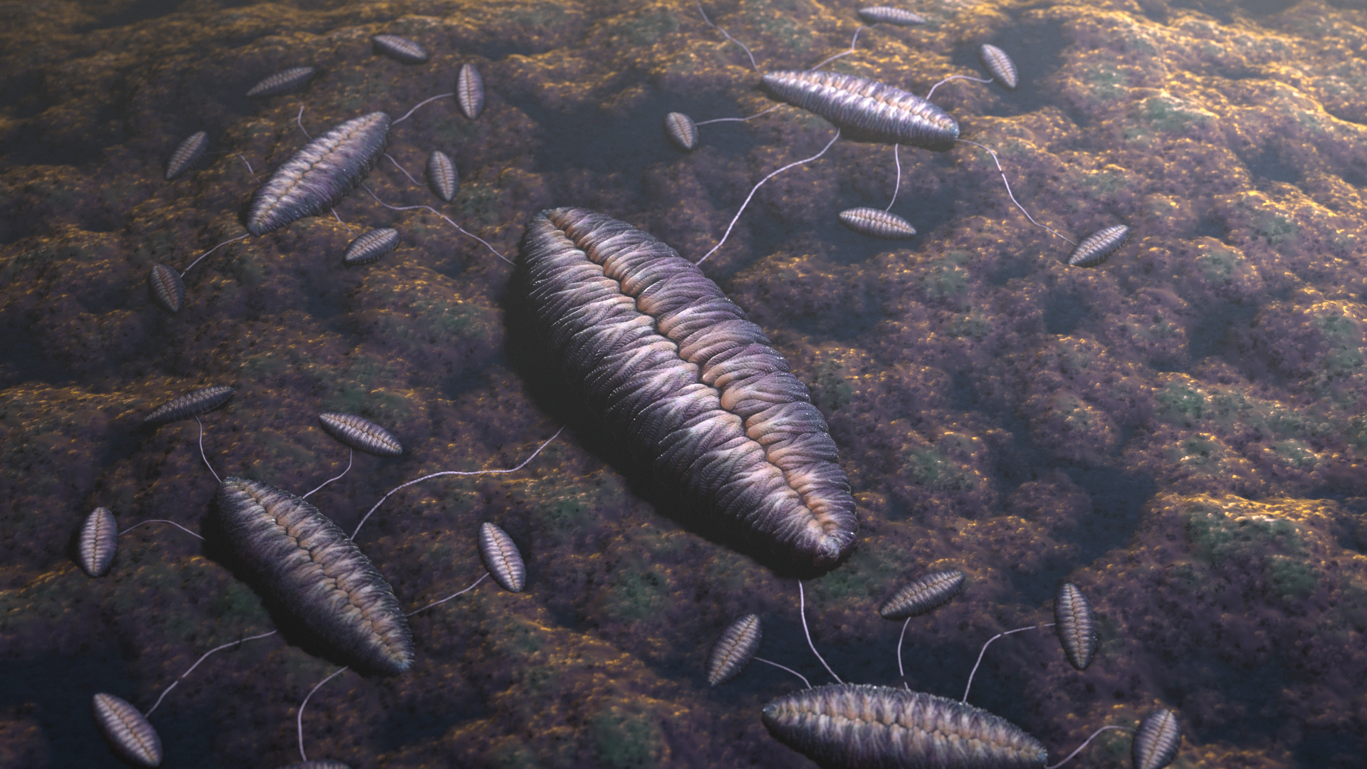 3D rendering of Fractofusus misrai - an orgabism from the Ediacaran period that lived 570 MYA. It comes from the Avalon assemblage of Mistaken Point, Newfoundland, Canada. Fractofusus is depicted here being surrounded by its yound and connected to them with stolon-like filaments.